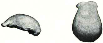 The skull-cap from Trinil, in Java, to which Dr Eugene Dubois in 1891-1892 gave the name of Pithecanthropus erectus.Illustration from 1911 Encyclopædia Britannica, article Anthropology. Also know as Trinil 2 or Pithecanthropus 1.